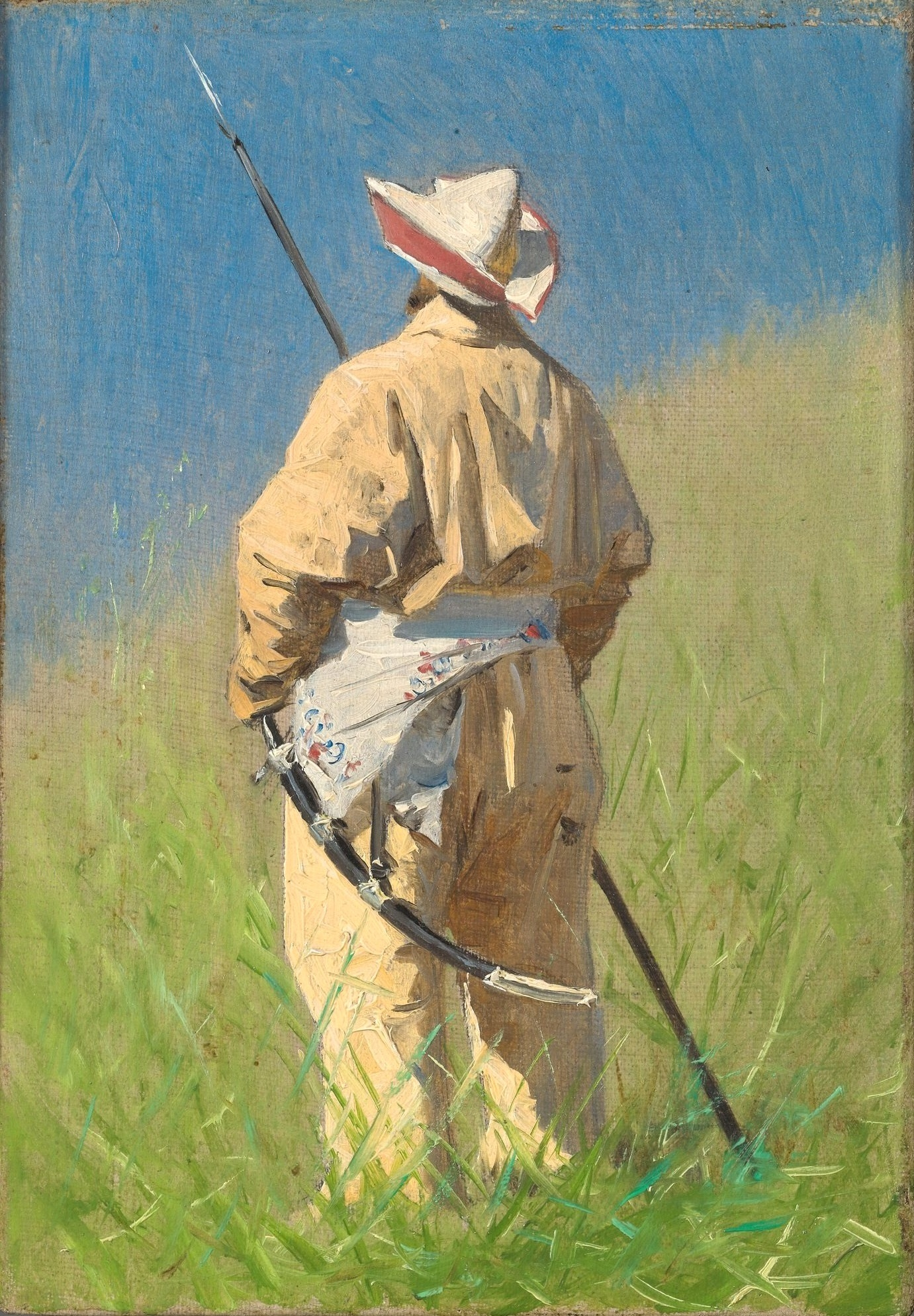 Kyrgyz